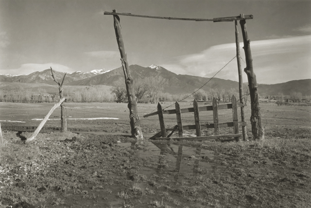 Fence construction at Los Cordovas. This is vega land, as is much land adjacent to the river. Because of excessive moisture this land is not suitable for cultivation of crops. It is of high value, however, because even in periods of scarce water, this land produces native hay. Location: Taos Co., NM.